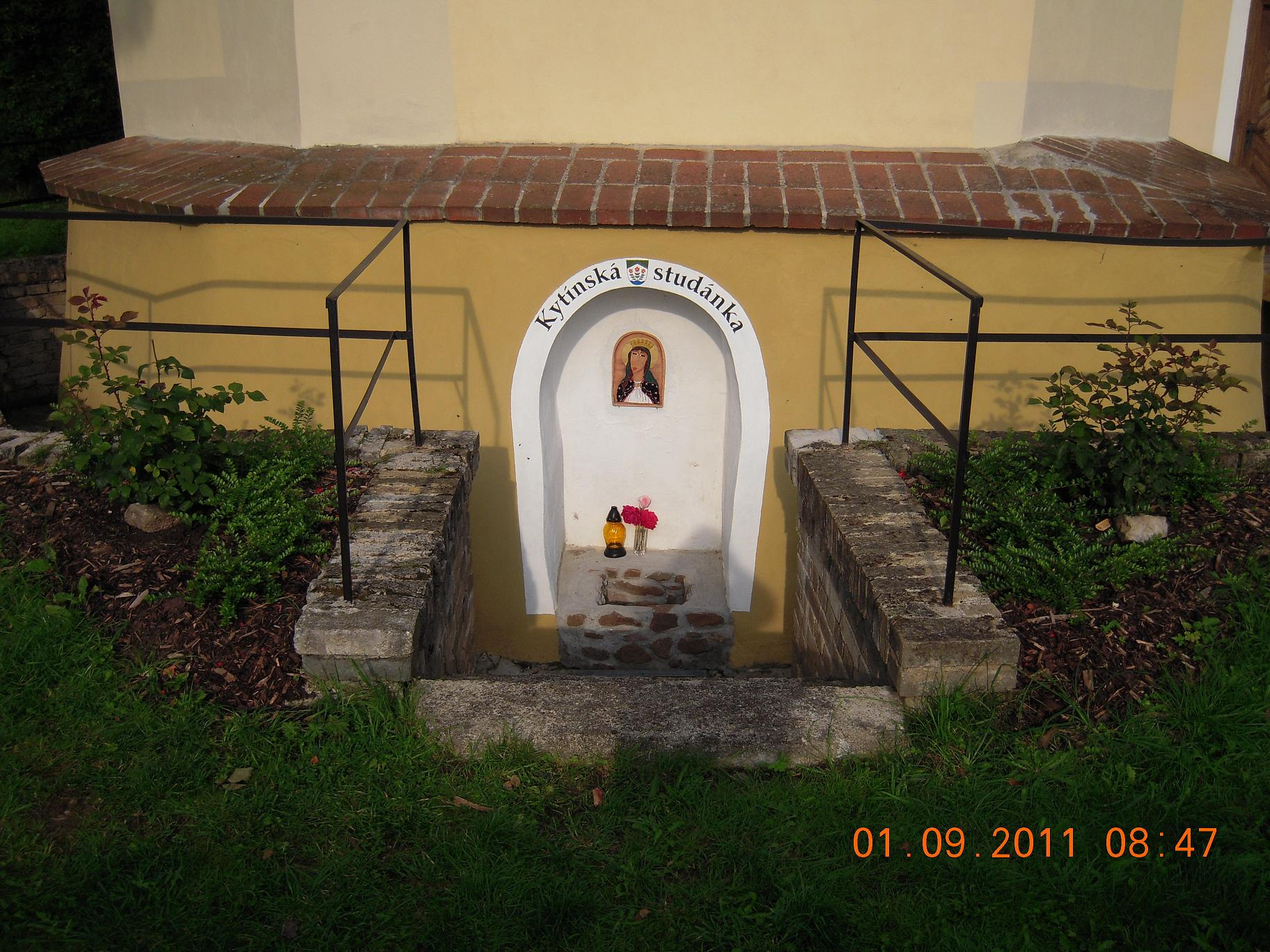 Village Kytin, Central Bohemia, Czech Republic. Spring with "miraculous" water in foundations of the apse of the church Assumption of St. Mary, after renovation in 2011